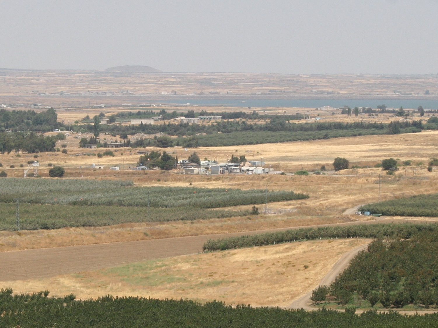 Israel-Syria Quneitra border crossing as seen from West to East.